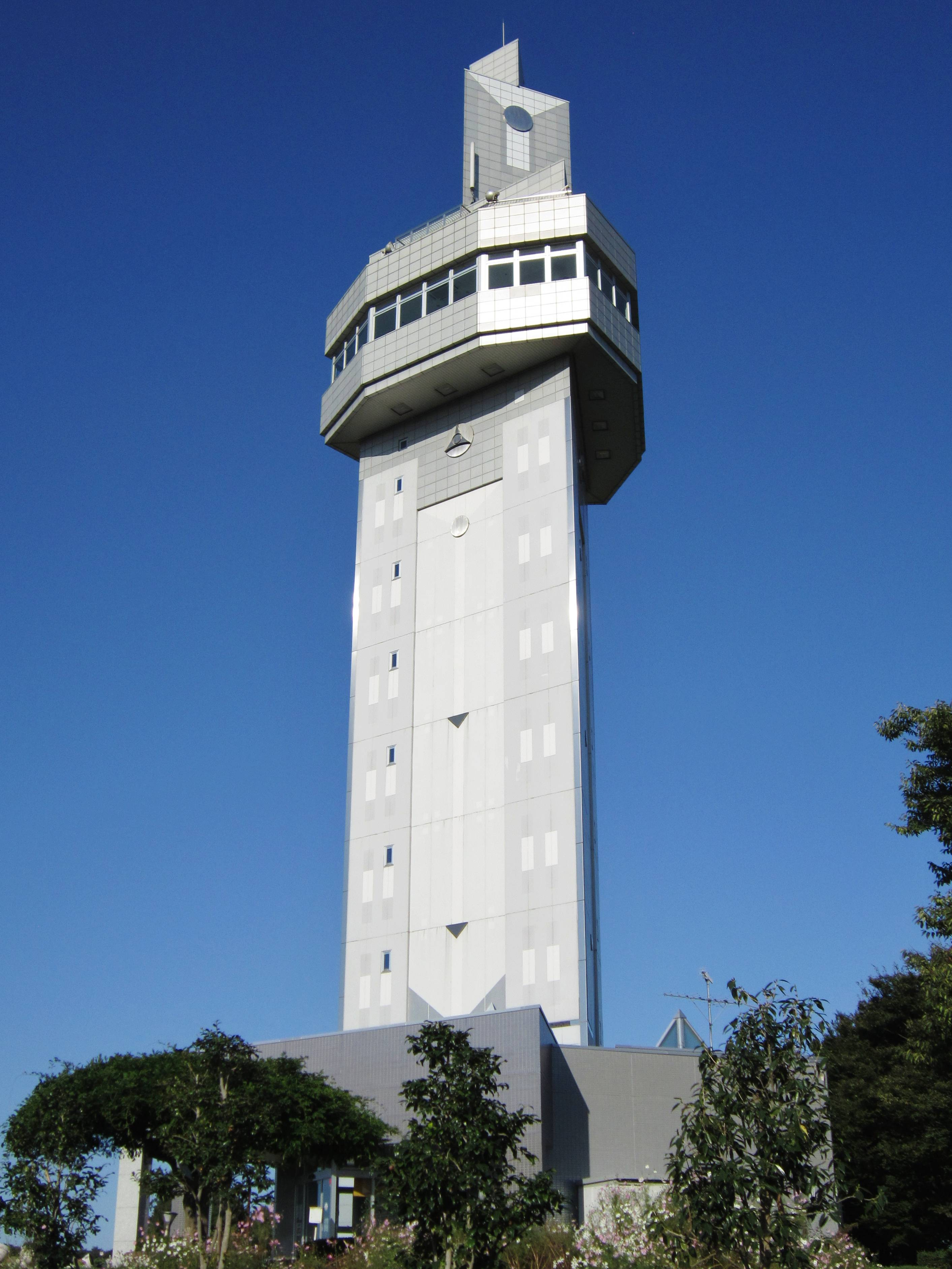 Symbol Tower MiRAi.